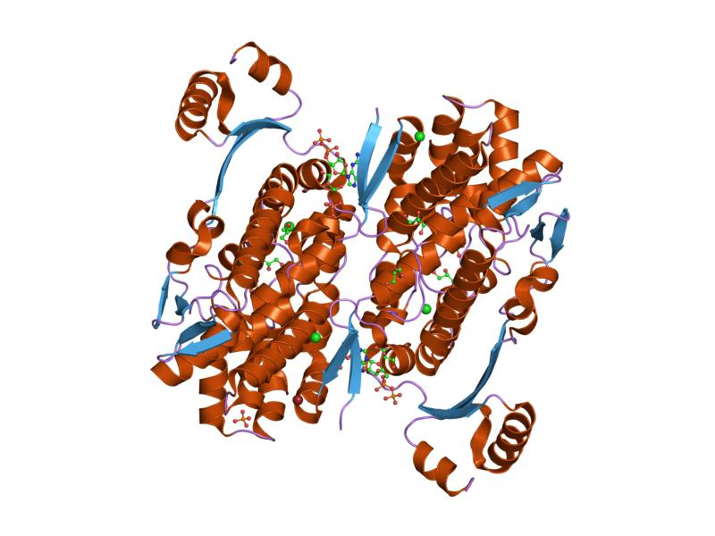 Cartoon representation of the molecular structure of protein registered with 2hek code.